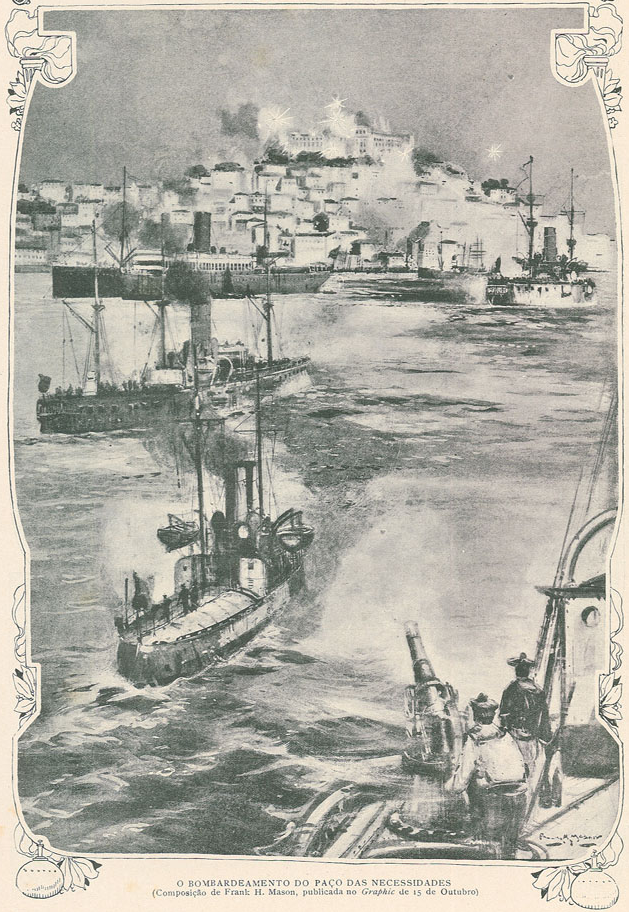 The Palace of Necessidades is bombarded during the 1910 Republican Revolution.